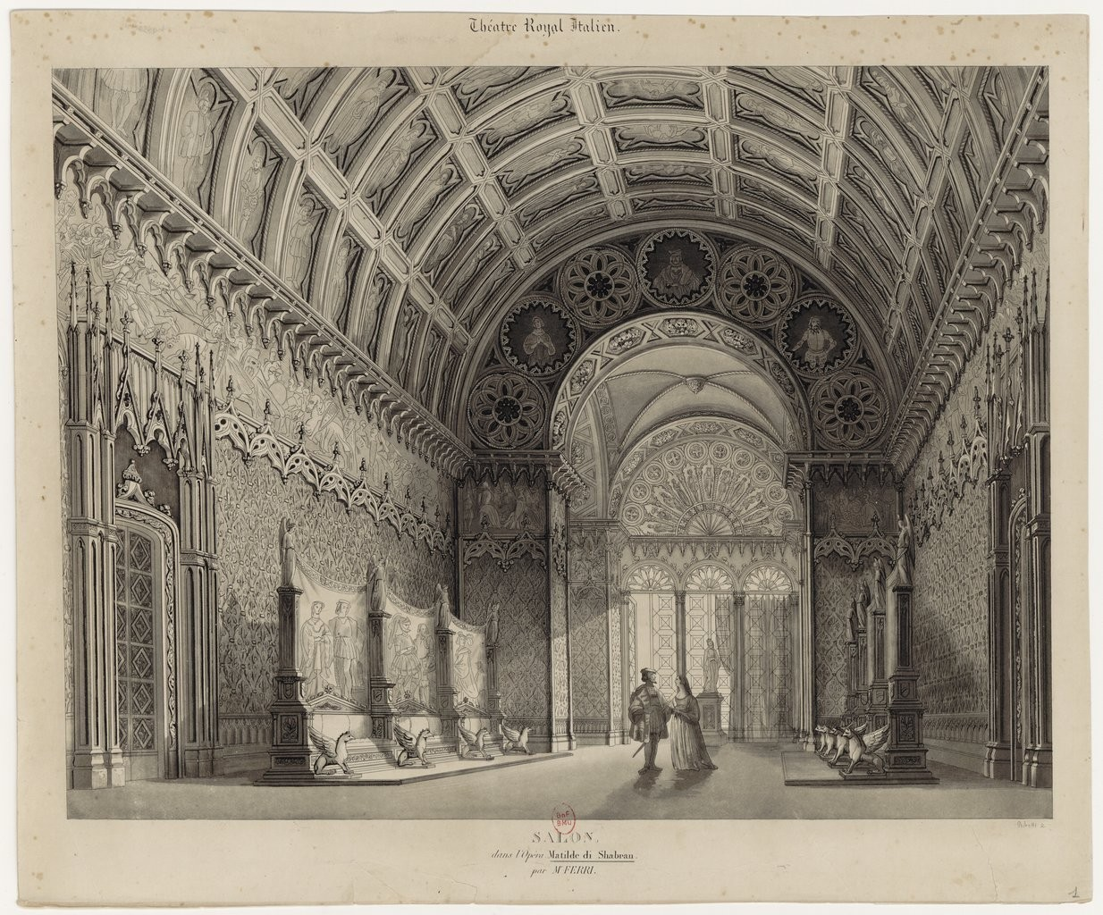 Rossini - Matilde di Shabran - Théâtre royal italien, 05-10-1829 - Salon